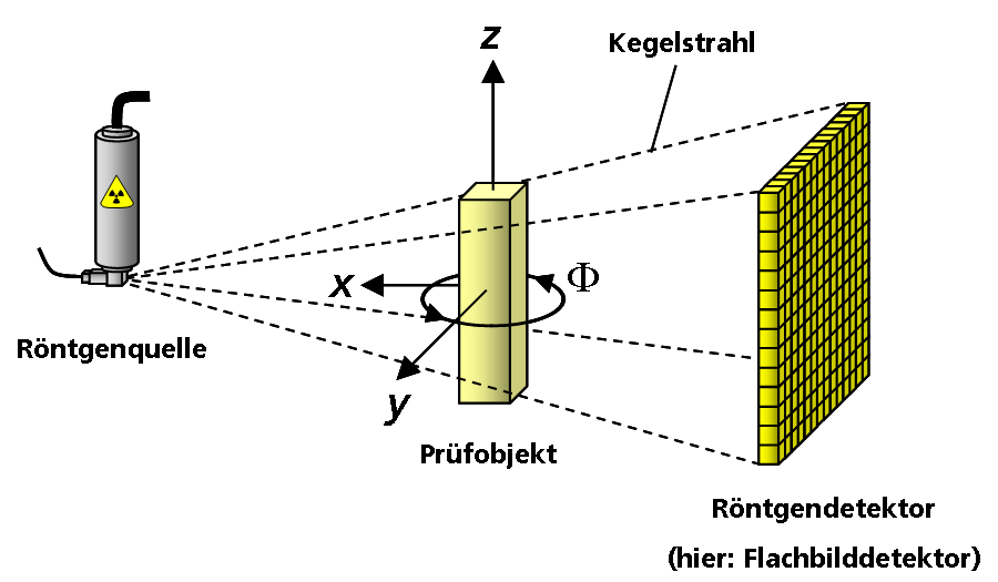 Schematic representation of a 3D Computed Tomography